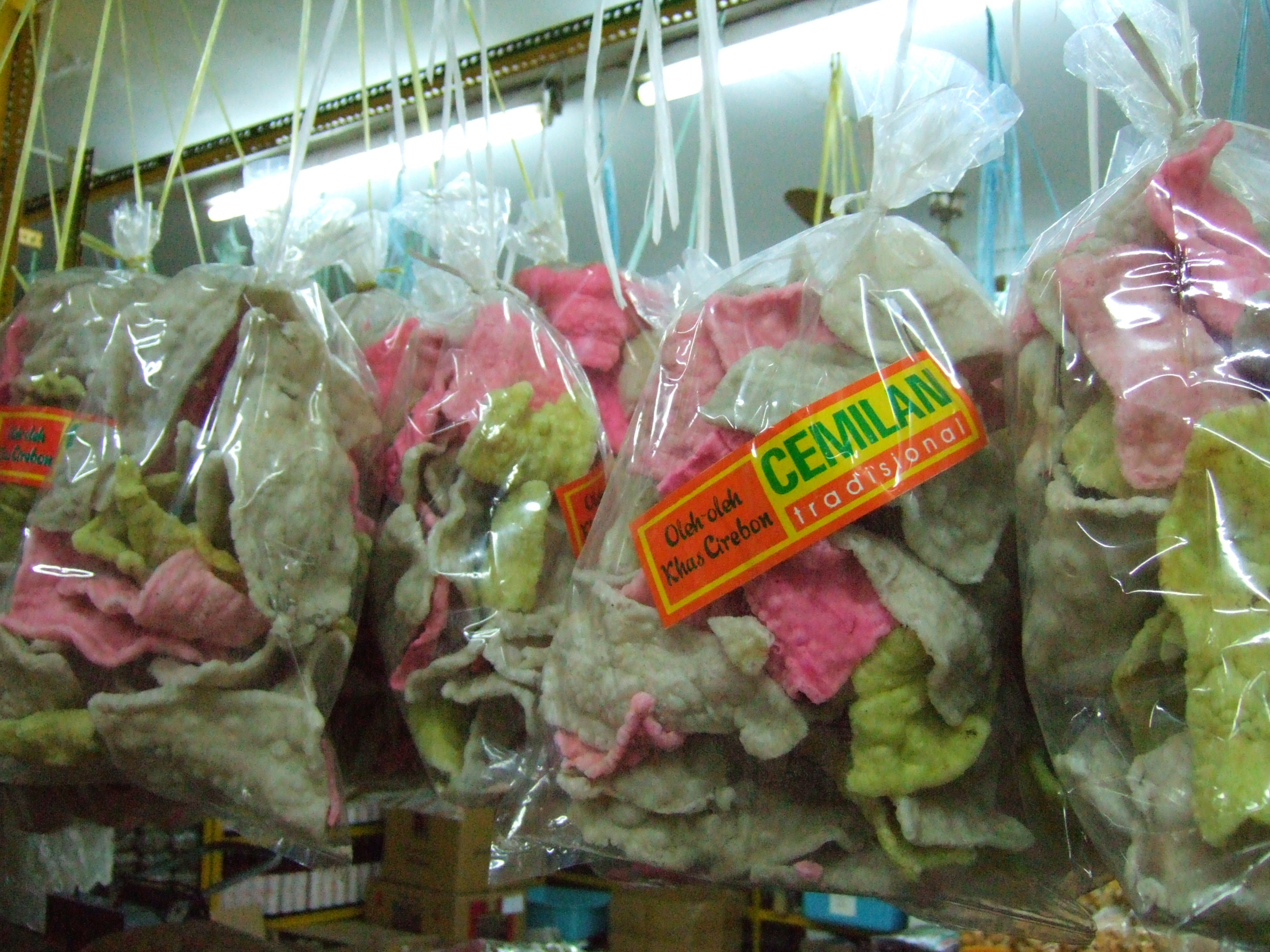 Kerupuk Mlarat (lit. poor kerupuk). Chips made of tapioca flour and fried in hot sand (not oil) sold in Cirebon, West Java, Indonesia